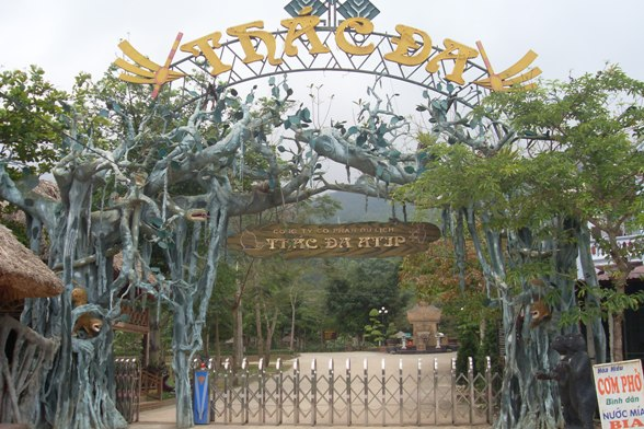 Entry Thac Da.